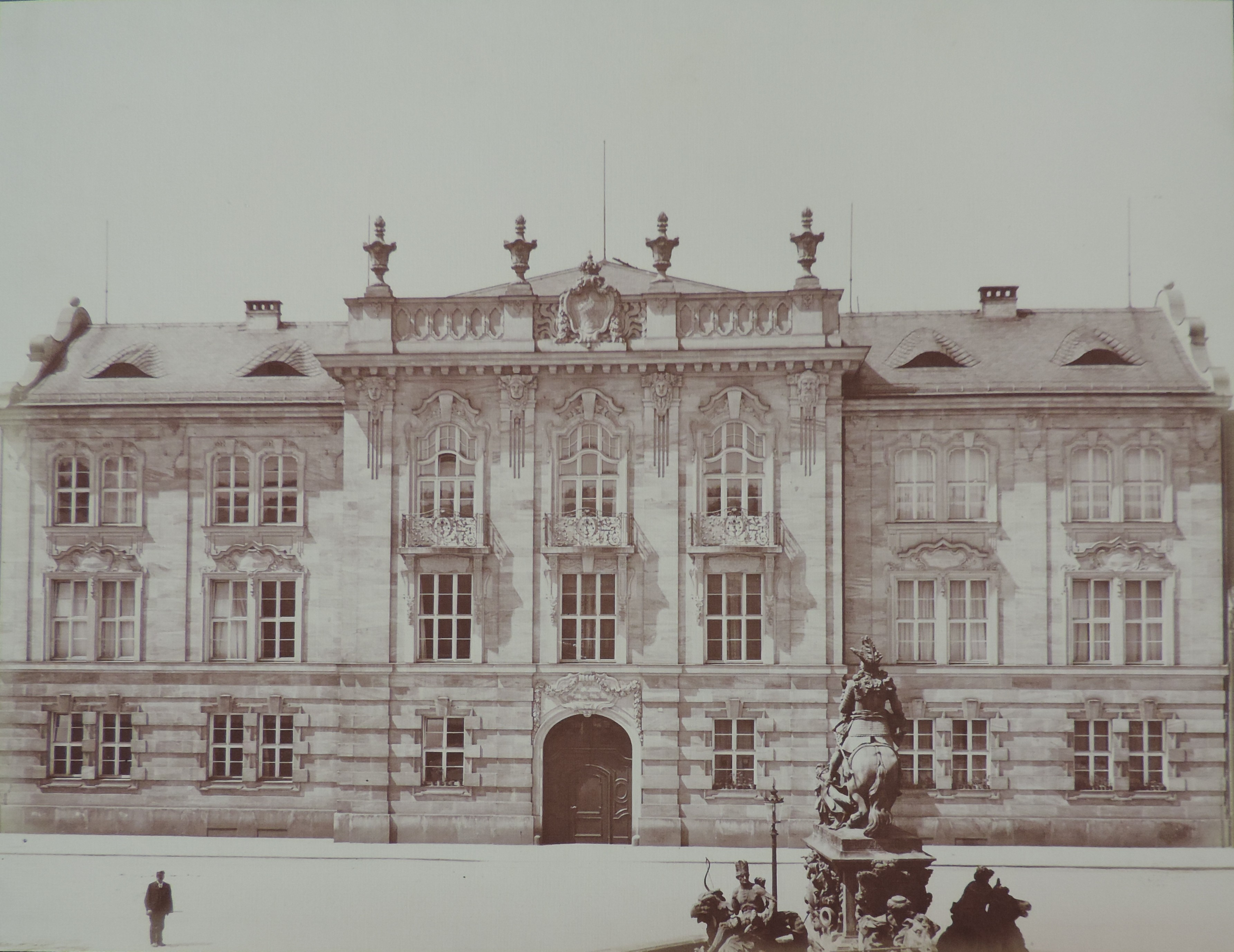 Views and photos of Bayreuth, Germany, gifted to Ferdinand I of Bulgaria to commemorate his 25-year rule. Administrative building from 1904.